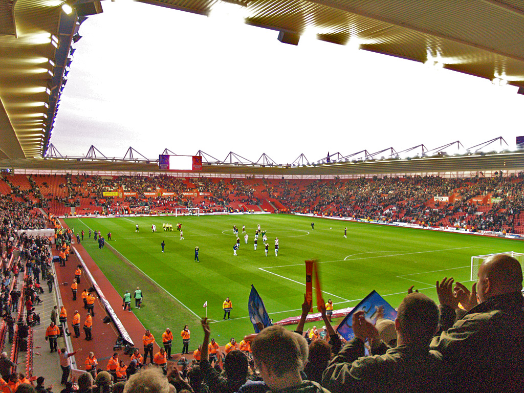 The Bury FC players applaud the Bury fans in the Northam Stand at The Friends Provident St. Mary%u2019s Stadium, home of Southampton FC. Saturday 26th January 2008